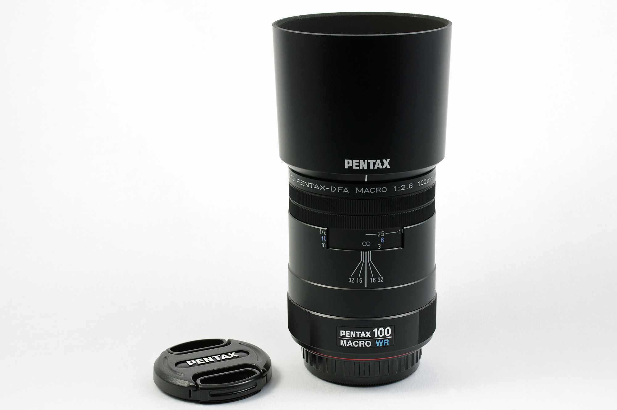 The telemacro lens Pentax smc D-FA 100 mm / 2.8 Macro WR, with mounted lens hood.